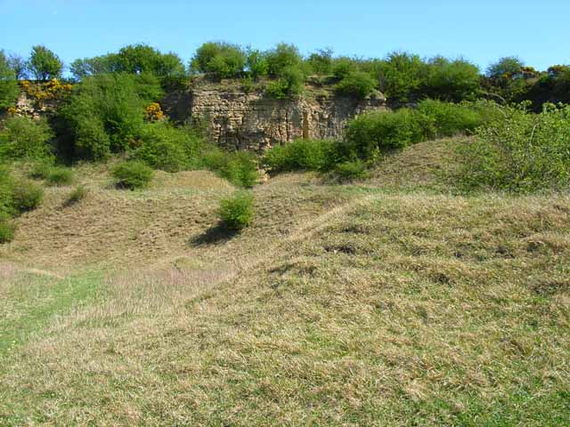 Pittington Quarry. Now abandoned, Pittington Quarry was one of the numerous quarries extracting dolomite from the Magnesian limestone escarpment in eastern county Durham. Many of these sites are now nature reserves, harbouring a rich variety of limestone-specific flora, and this one is a Site of Special Scientific Interest.